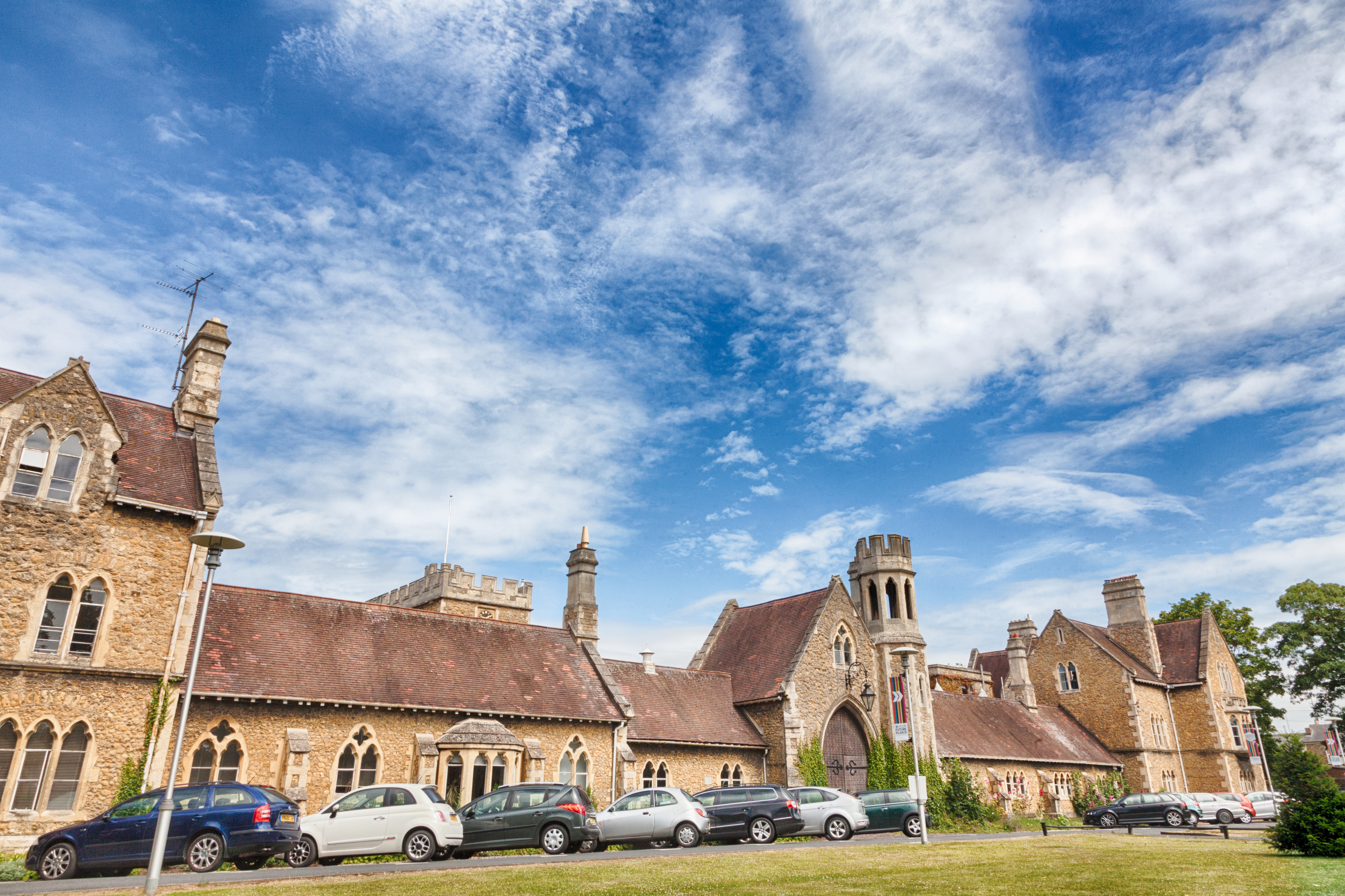 Photo of the main entrance to Francis Close Hall, Cheltenham